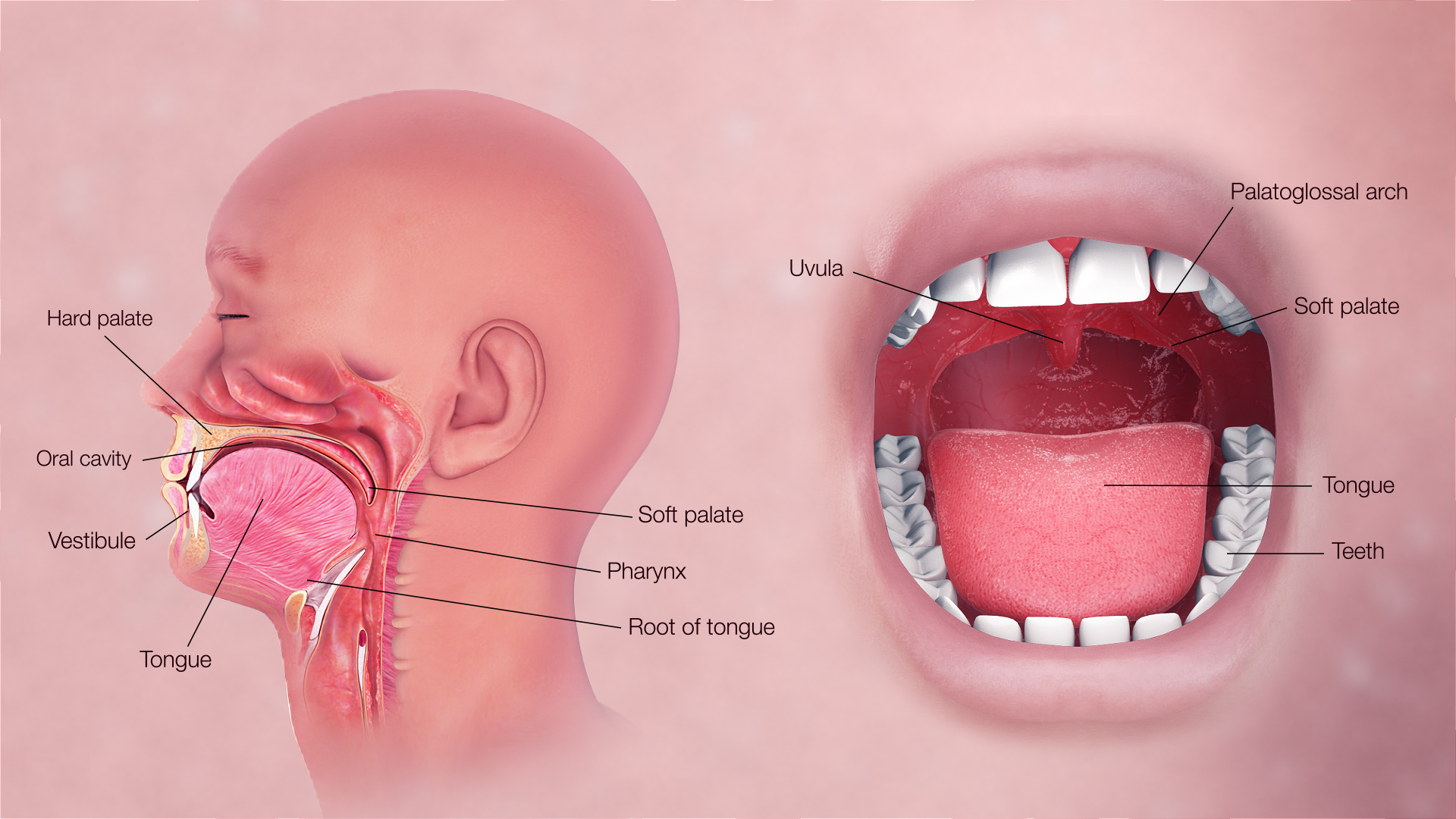 3D medical animation still shot showing different organs of the oral digestive system